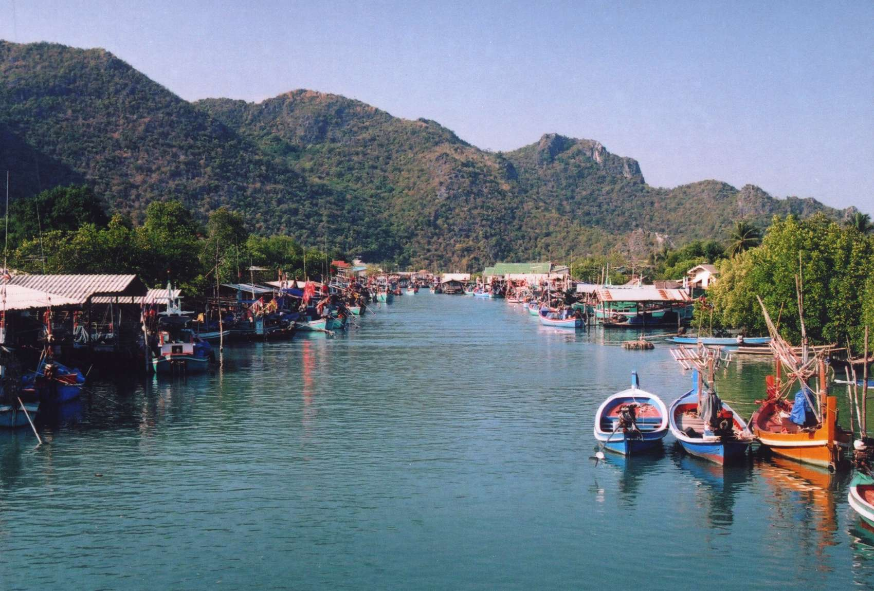 Harbour of the village Bang Pu, located inside the Khao Sam Roi Yod national park, Prachuap Khiri Khan province, Thailand. Photo taken by User:Ahoerstemeier on January 12 2005.